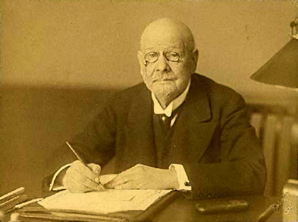 Portrait photo of Emil Rathenau, founder of AEG, seated at his desk, looking into the camera. Silver-gelatine print, original size 22.3×16.5 cm.